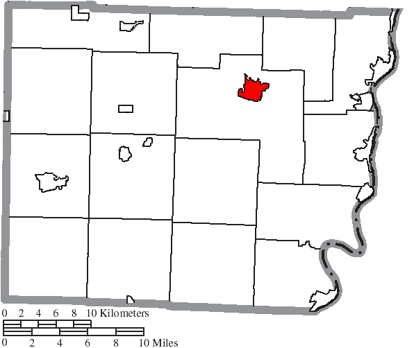 Map of the municipal and township boundaries of Belmont County, Ohio, United States, as of the 2000 census, with the location of the city of Saint Clairsville highlighted. Township borders are shown only in unincorporated areas in order to differentiate incorporated and unincorporated areas more clearly.